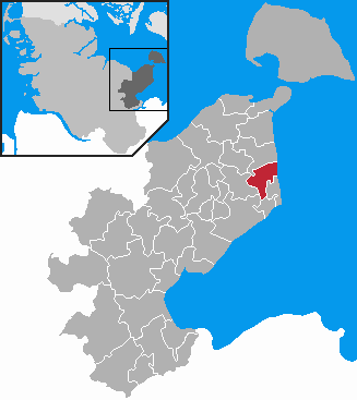 This map shows the area of the Gemeinde (municipality) Grube in the Kreis (district) Ostholstein, Schleswig-Holstein, Germany.